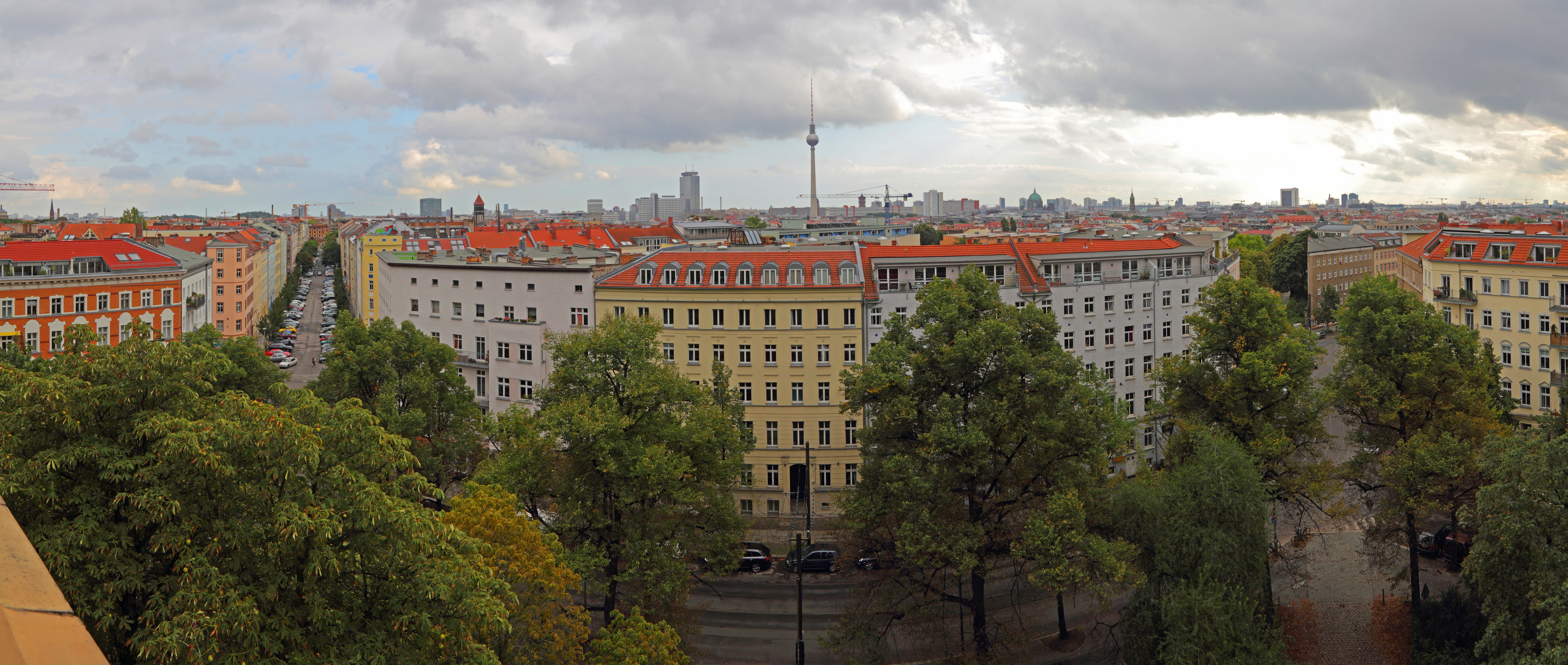 Berlin-Mitte. Panoramic view from the Zion Church. Parts of Berlin-Mitte are visible, with Zionskirchplatz and Zionskirchstraße in the foreground.